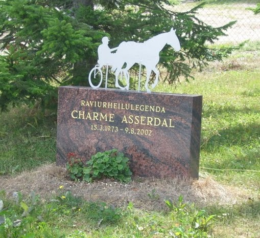 Grave of standardbred mare Charme Asserdal at Jokimaa Racetrack in Lahti, Finland.